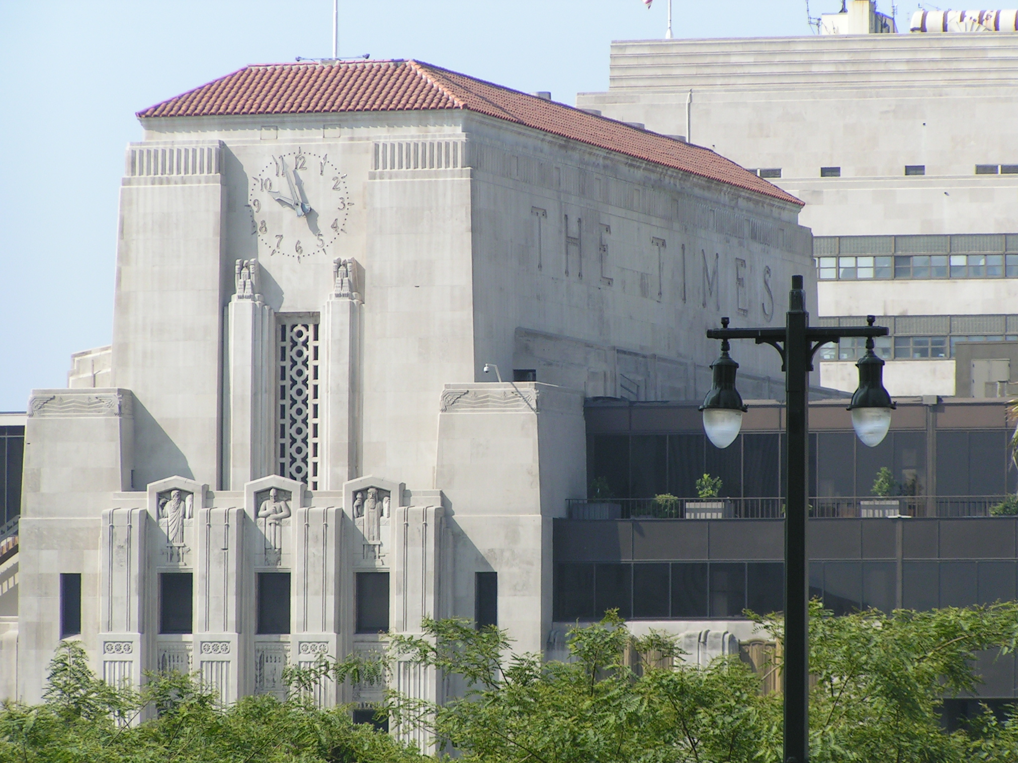 Category:Los Angeles Times Building — Downtown Los Angeles. Designed by architect Gordon Kaufmann.